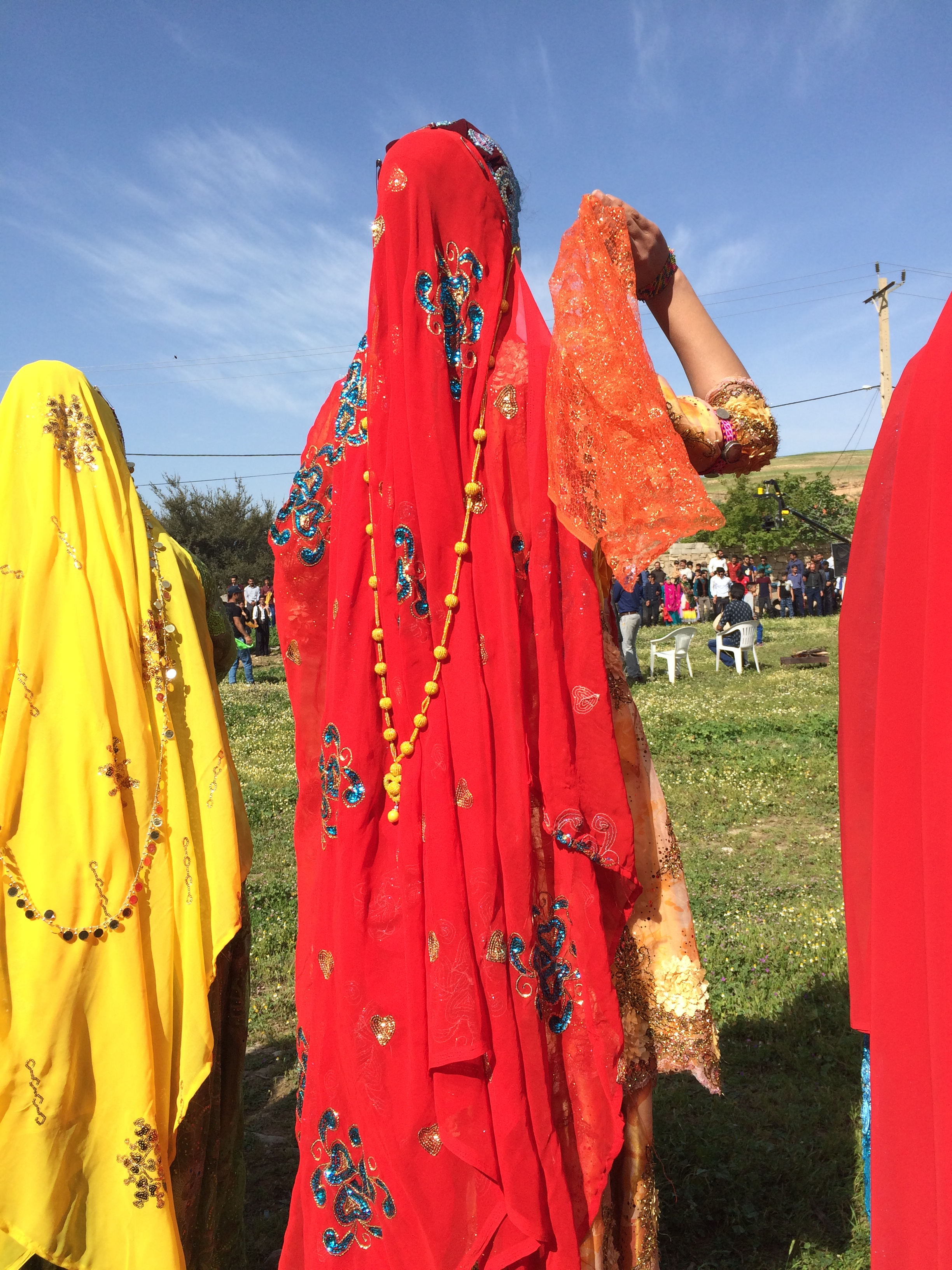 Dastmal bazi in bakhtiari wedding